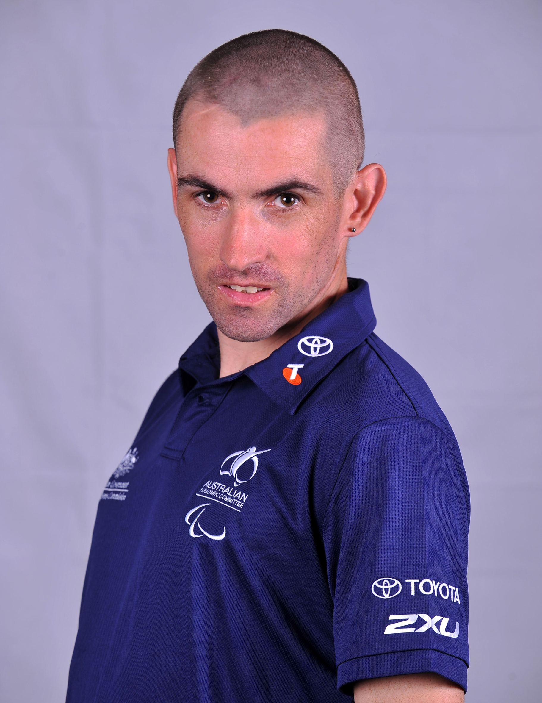 Portrait of Australian athlete Tim Sullivan, 2012 Australian Paralympic (shadow) Team athlete